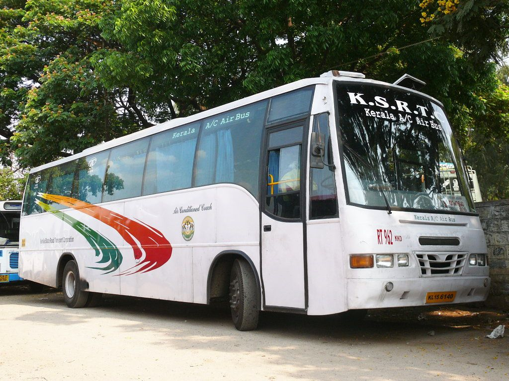 KSRTC AC Bus